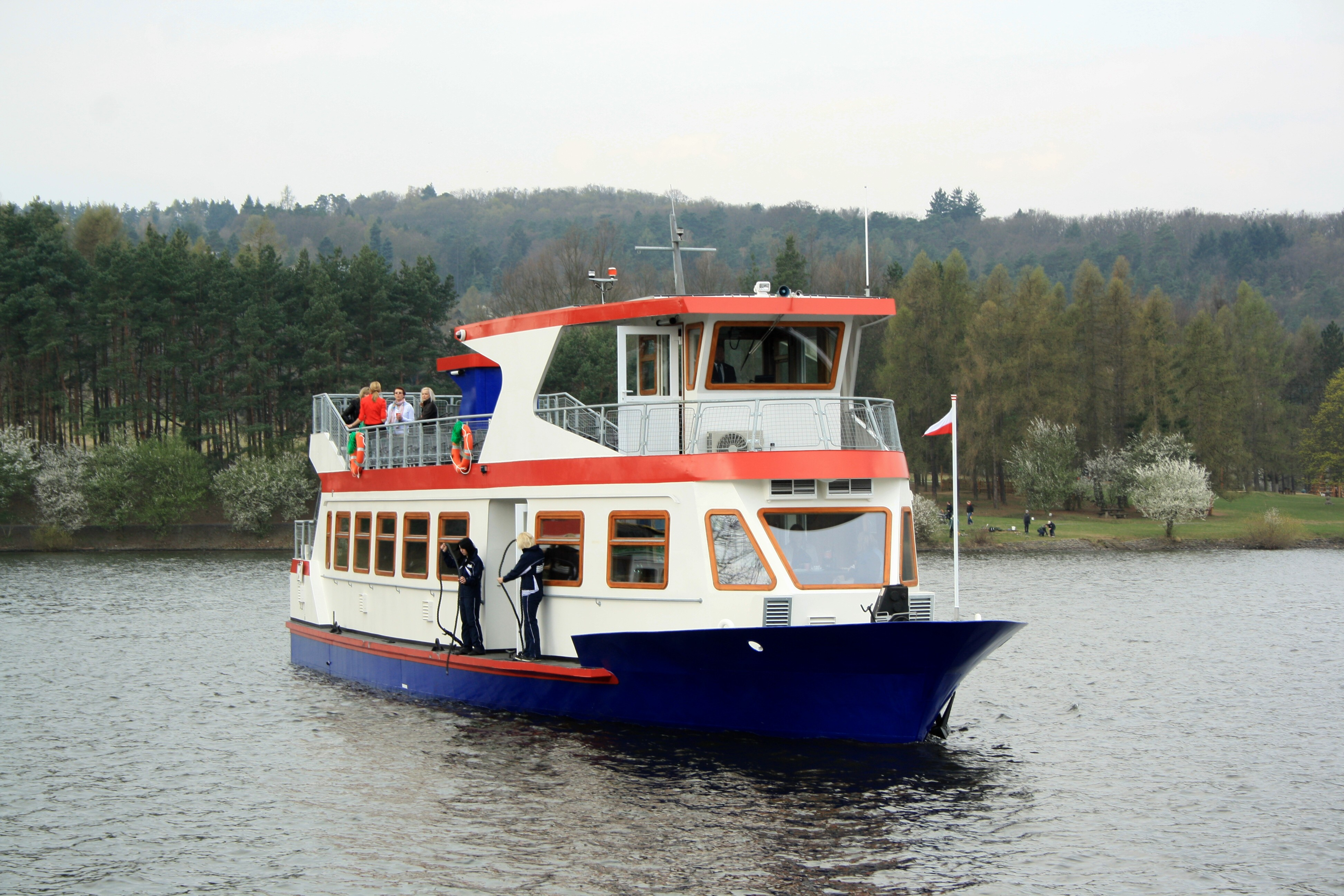 Stuttgart ship at Brno Reservoir, Brno, Czech Republic This photograph was taken with a DSLR from WMCZ's Camera grant.